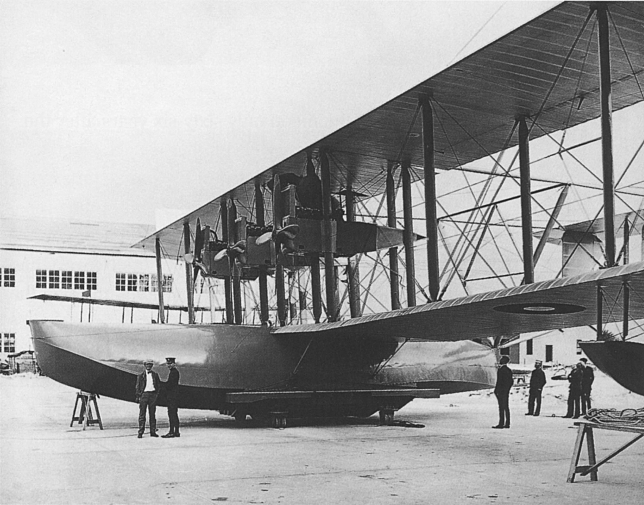 Curtiss NC seaplane. Plane number one of four, named NC-1, just after being manufactured, October 3, 1918. Note there are only 3 engines. A fourth pusher engine was added for the transatlantic test flight.